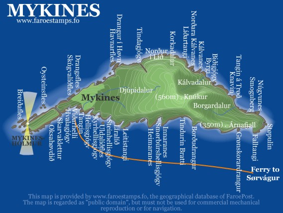 Mykines, Faroe Islands Graphics: Anker Eli Petersen, 2004 Source: Faroestamps.fo - Mykines